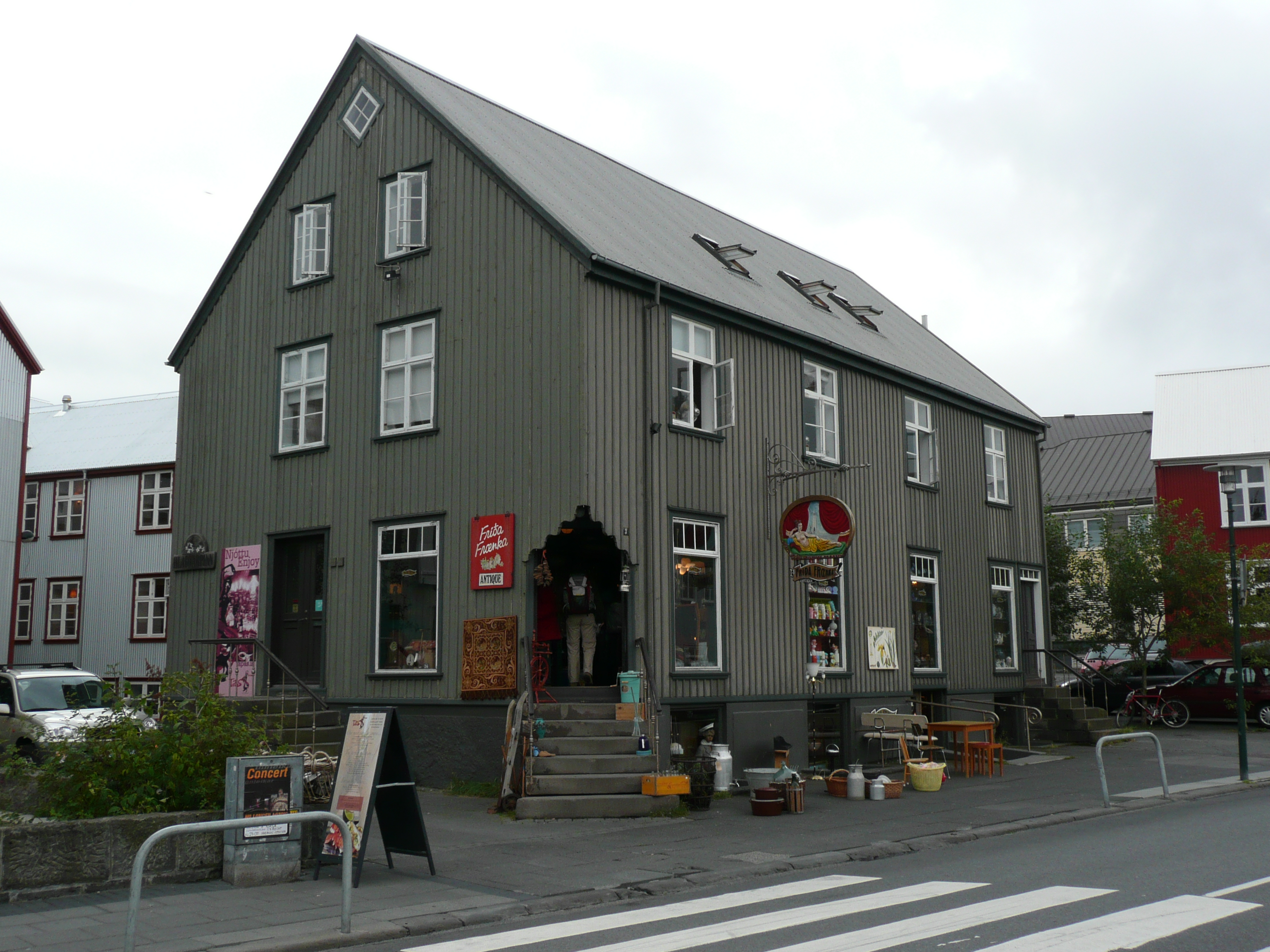 Vesturgata 3. The shop Fríða frænka